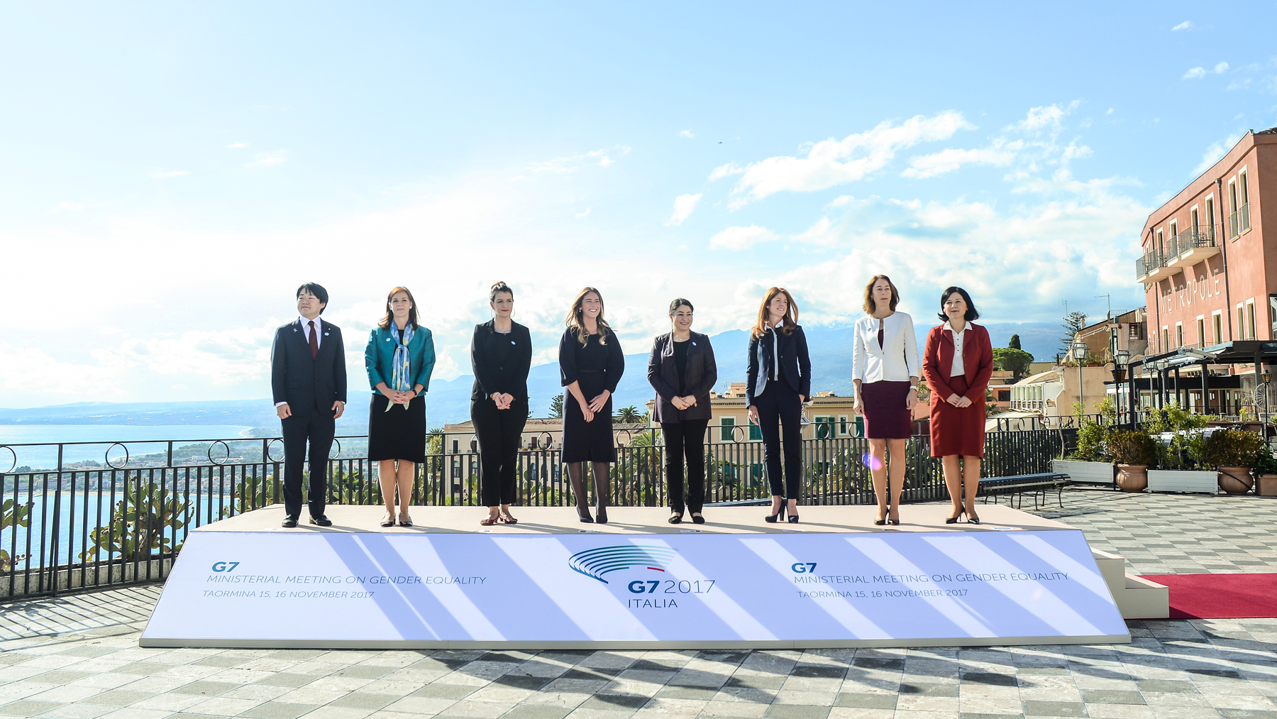 G7 Turin Ministerial Meeting on Gender Equality